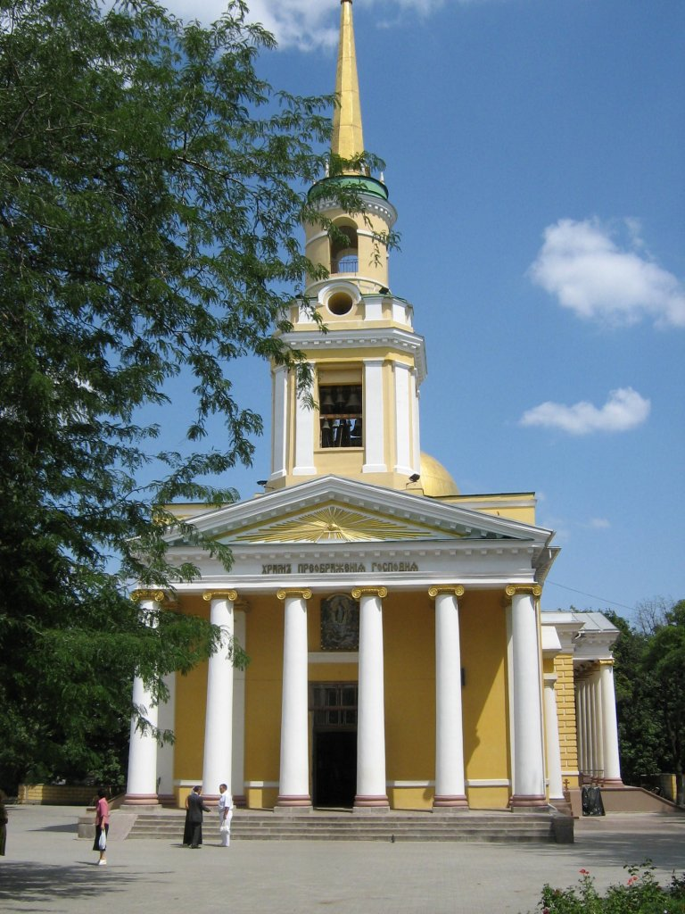 Sviato-Preobrazhenskyi Cathedral in Dnepropetrovsk/Ukraine